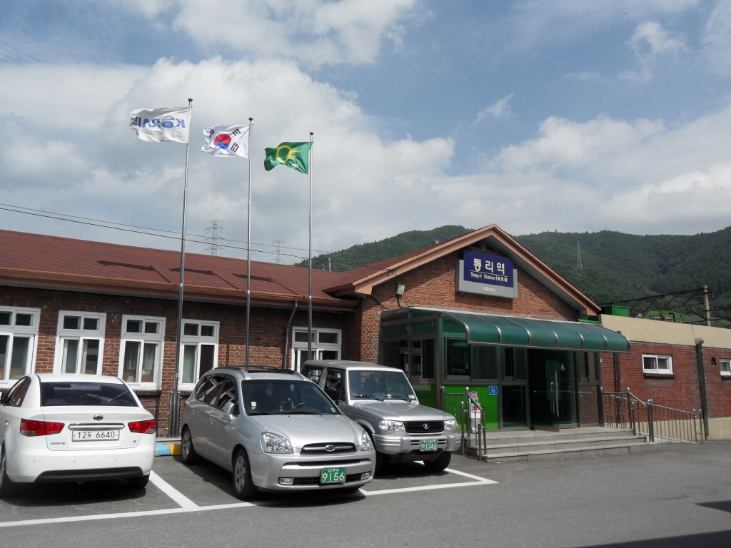 Korail Tong-ri Station